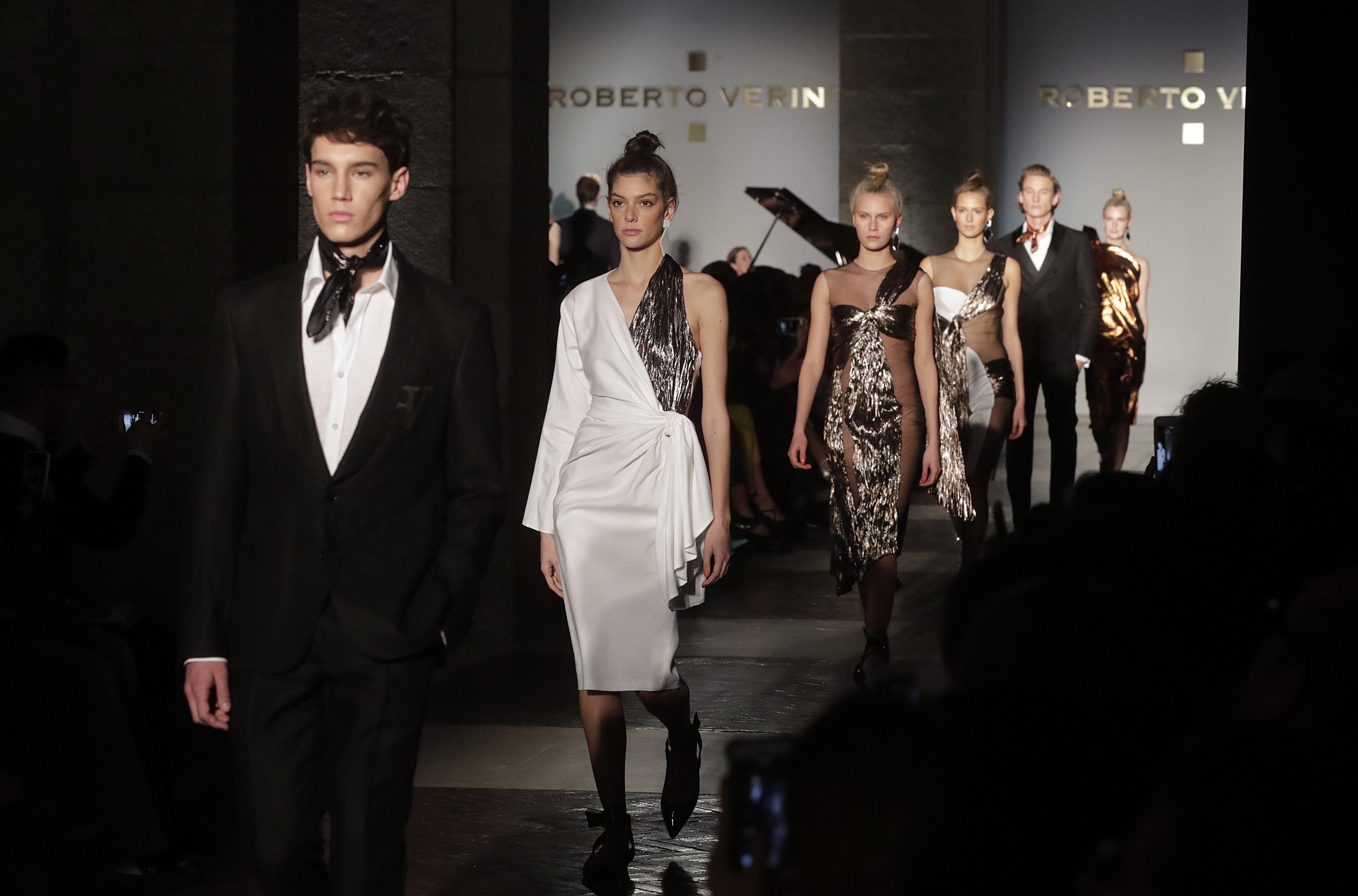 La Real Casa de Correos acoge por primera vez la Mercedes Benz-Fashion Week Madrid. ¡Bienvenidos al corazón de Madrid, acercando la moda a las calles! Enhorabuena Roberto Verino por el fantástico desfile #SS17: lino blanco, rayas azul cielo y algodones, esencia de vuestra firma.